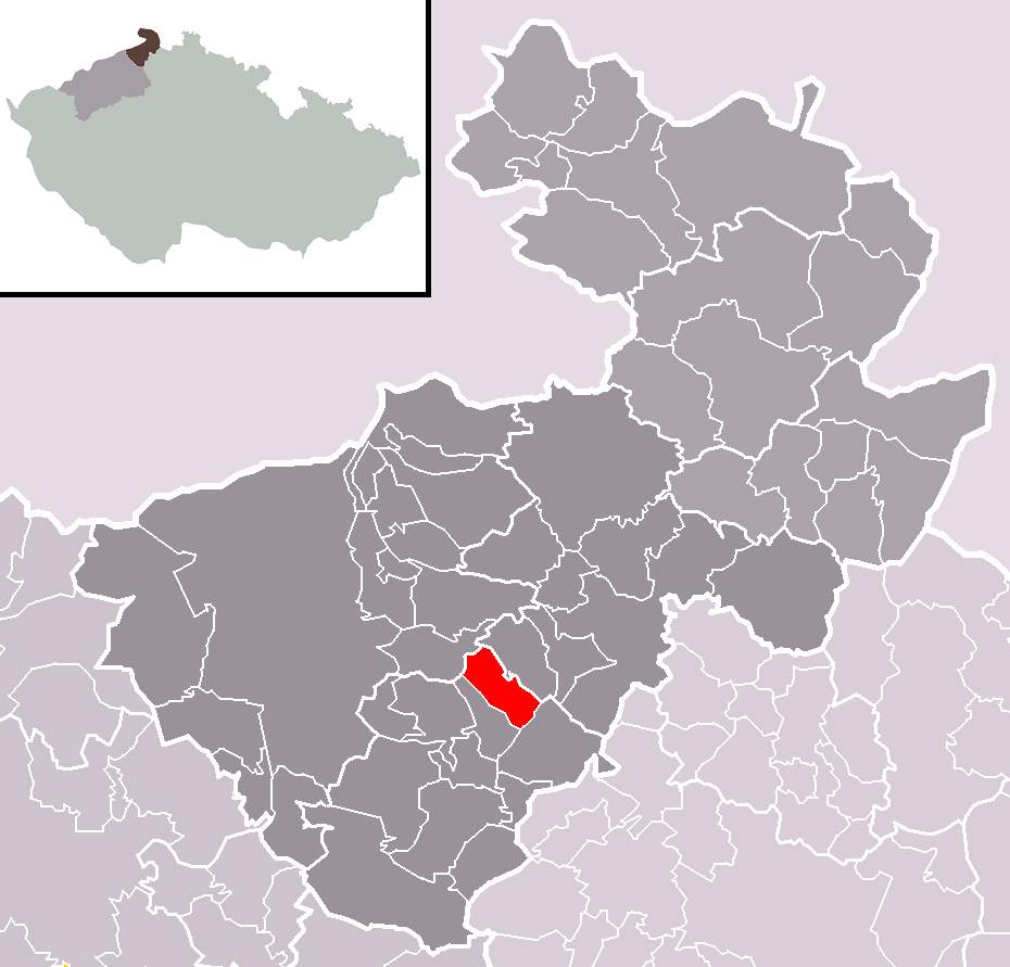 Location of Horní Habartice municipality within Děčín District and administrative area of Děčín as a Municipality with Extended Competence.